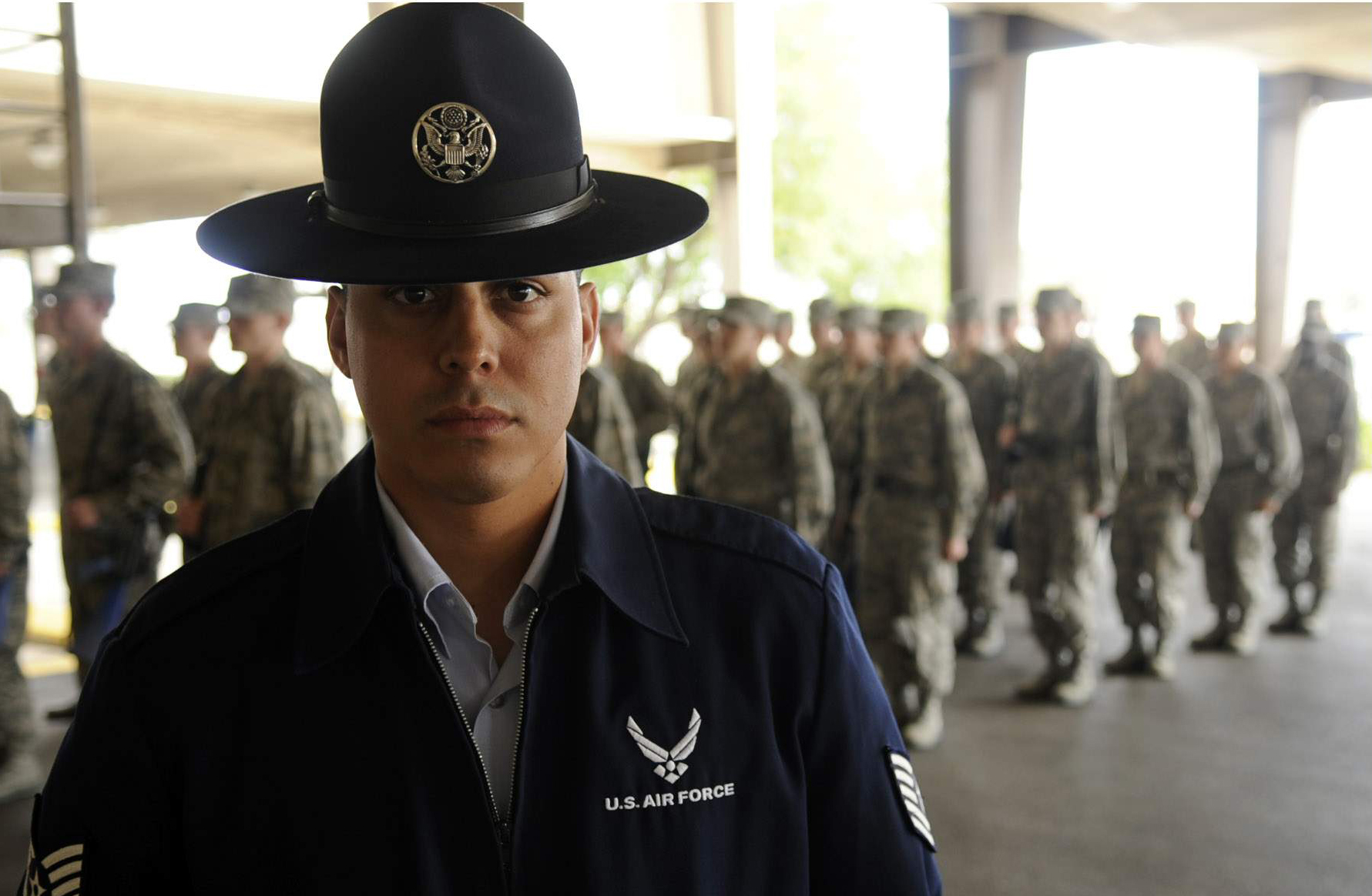 Technical Sergeant Ricardo A. Chavez is a military training instructor at Lackland Air Force Base in San Antonio, Texas. He and his colleagues are the face of the Air Force for hundreds of trainees throughout the year and molds recruits through a recently overhauled and expanded Air Force Basic Military Training that focuses on a 'warrior first' philosophy.